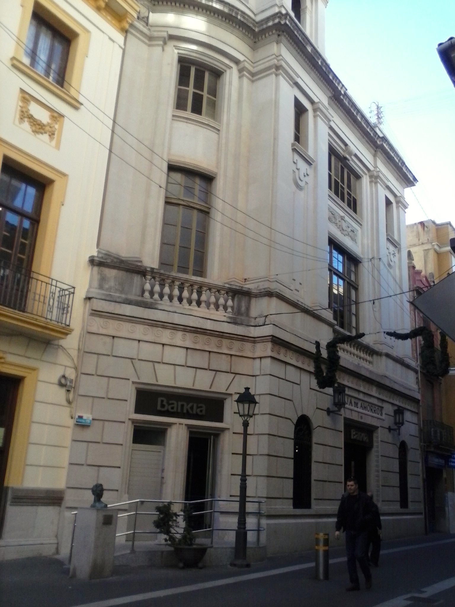 Front of the building of the Savings Bank of Vila-real. Eugeni Pere Cendoya. 1930